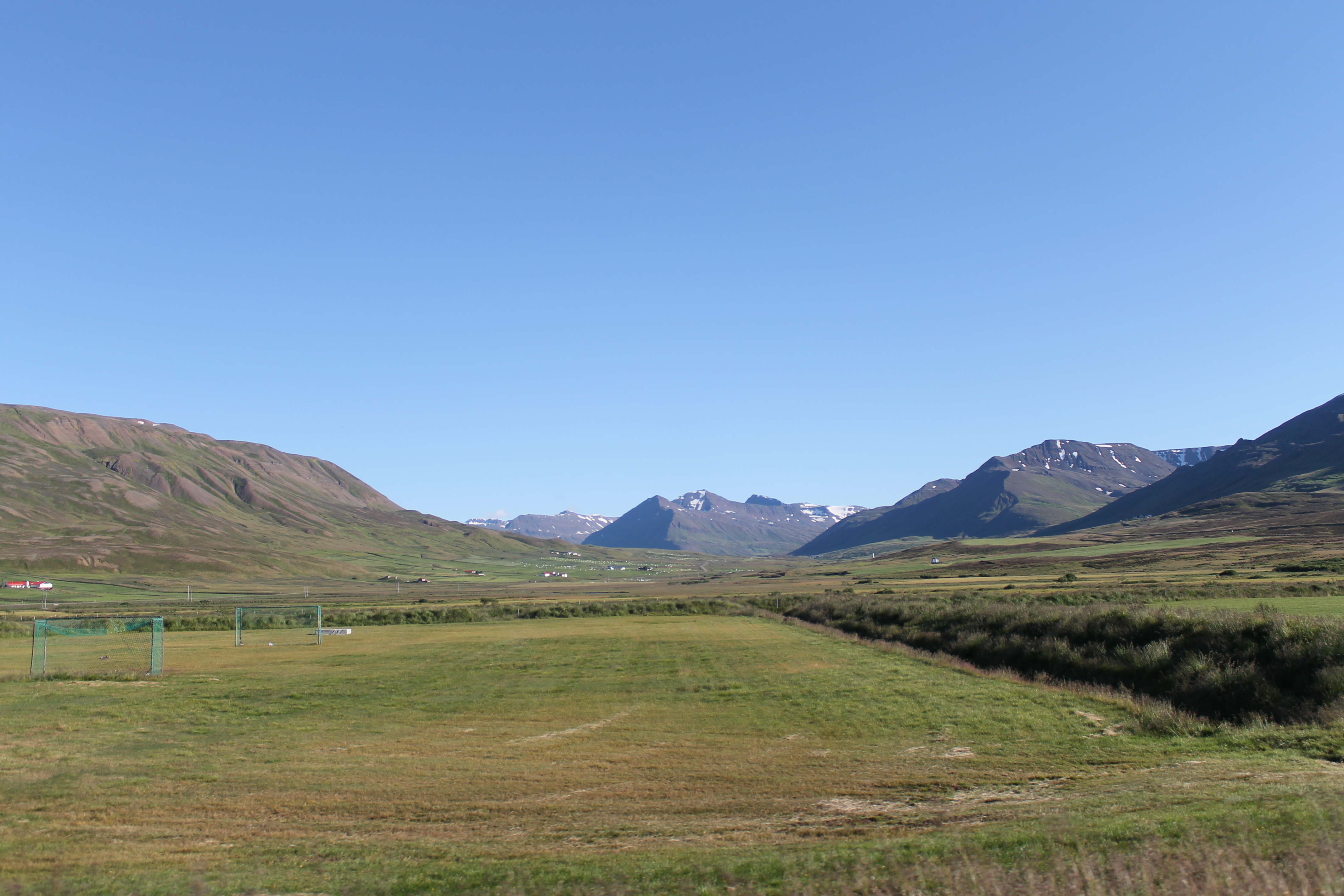 Fljót, Skagafjörður, Northern Iceland.